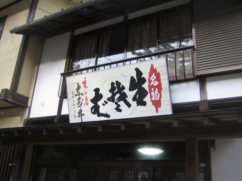 buckwheat noodle shop